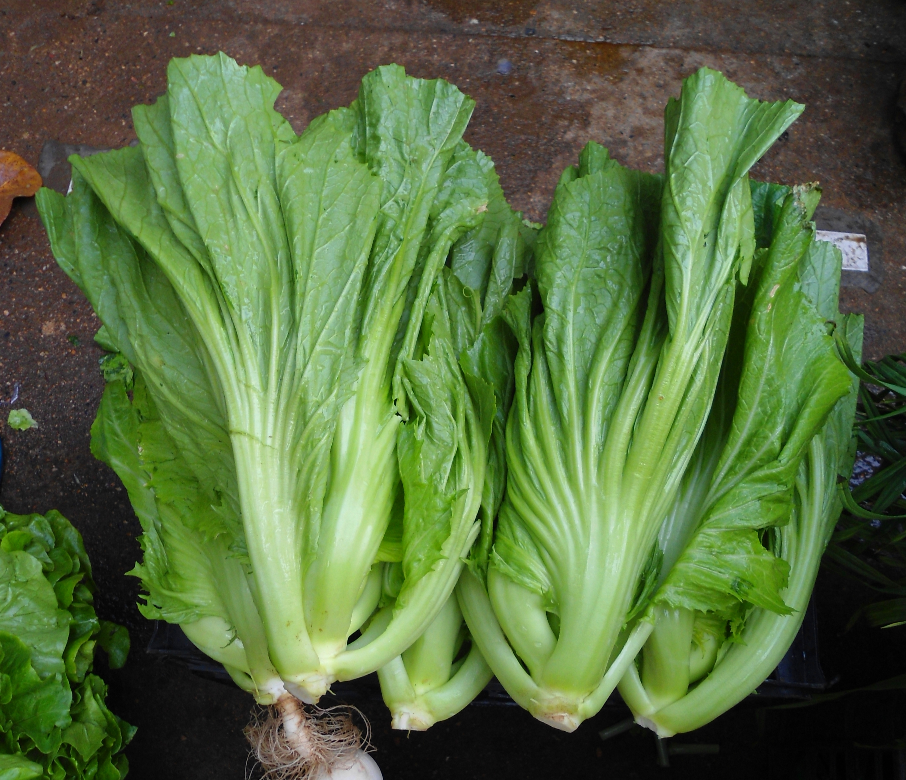 Unidentified Chinese vegetable in a market in Haikou City, Hainan Province, China.